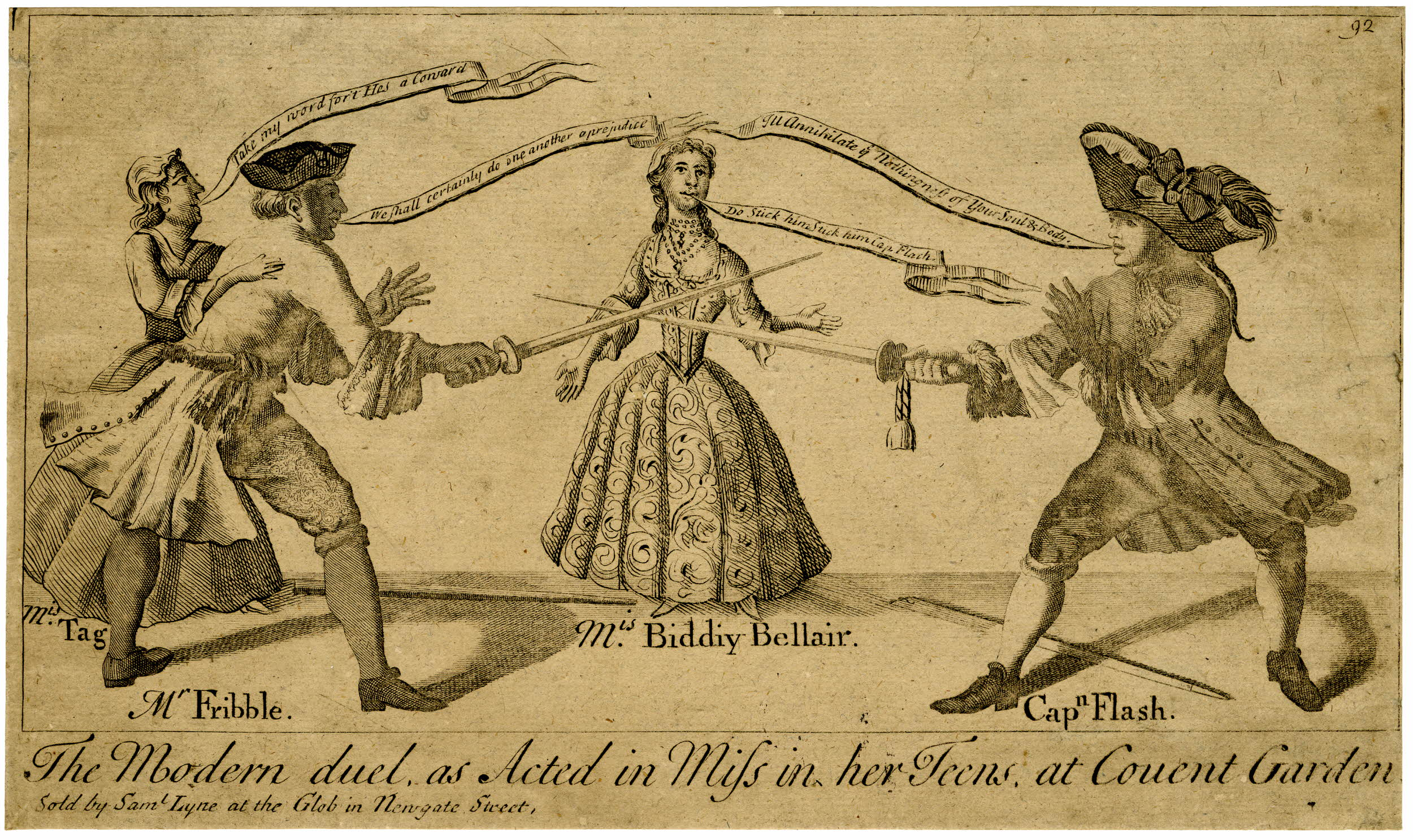 Stage scene; an episode from David Garrick's farce "Miss in her Teens" at the Theatre Royal, Covent Garden, with Garrick as Fribble, Henry Woodward as Captain Flash, Jane Hippisley as Biddy Bellair and Hannah Pritchard as Mrs Tag. 1747 Etching and engraving